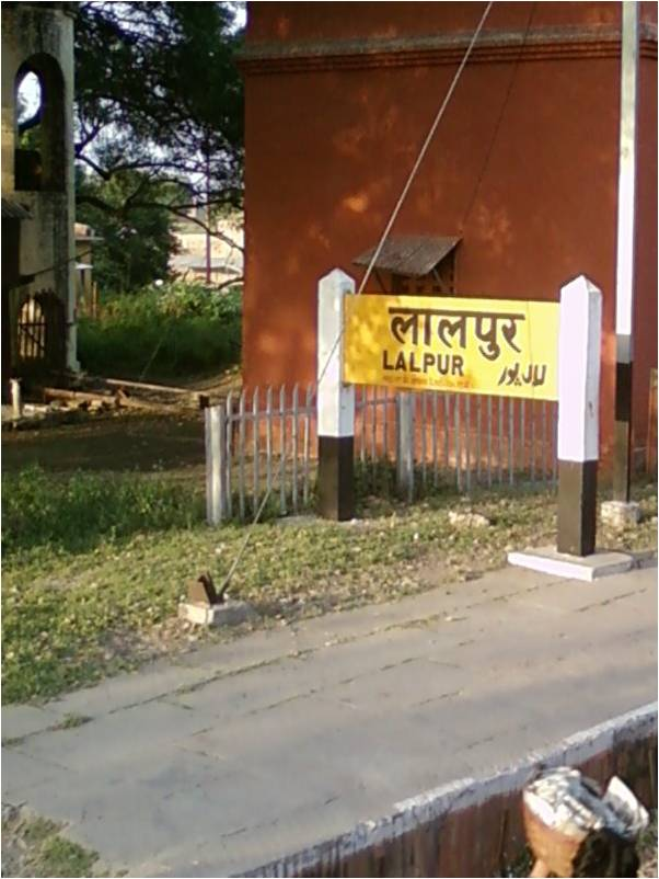 Lalpur railway station in Jalaun District